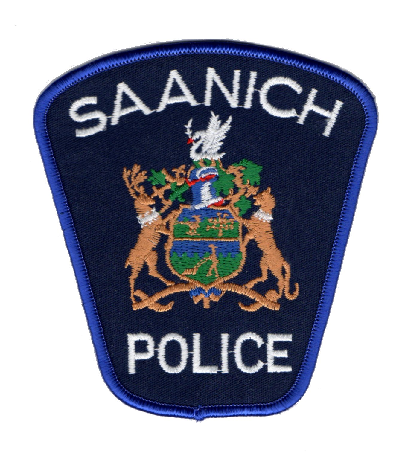 Part of my collection of Canadian Law enforcement patches. New addition!